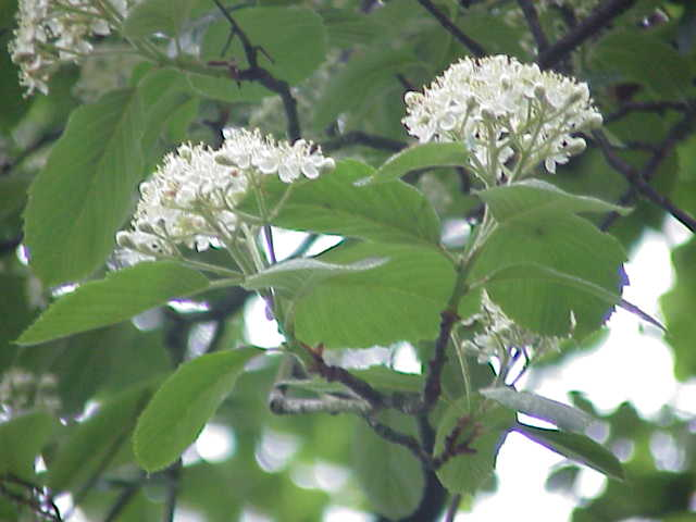 Species: Sorbus aria Family: Rosaceae Image No. 1